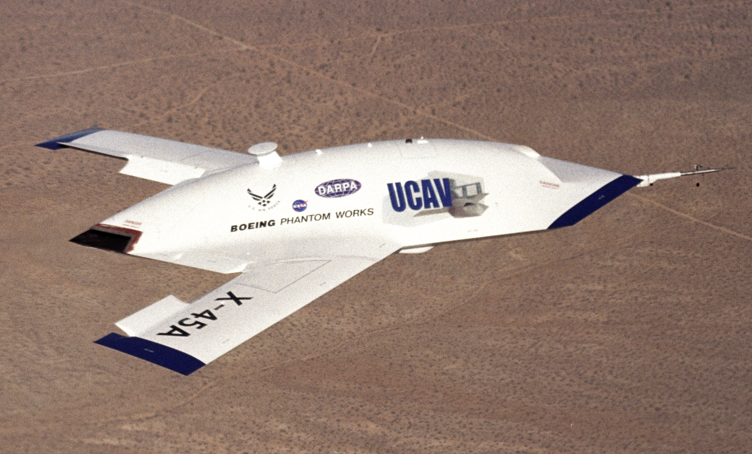 The first X-45A Unmanned Combat Air Vehicle (UCAV) technology demonstrator completed its sixth flight on Dec. 19, 2002, raising its landing gear in flight for the first time. The X-45A flew for 40 minutes and reached an airspeed of 195 knots and an altitude of 7,500 feet. Dryden is supporting the DARPA/Boeing team in the design, development, integration, and demonstration of the critical technologies, processes, and system attributes leading to an operational UCAV system. Dryden support of the X-45A demonstrator system includes analysis, component development, simulations, ground and flight tests.